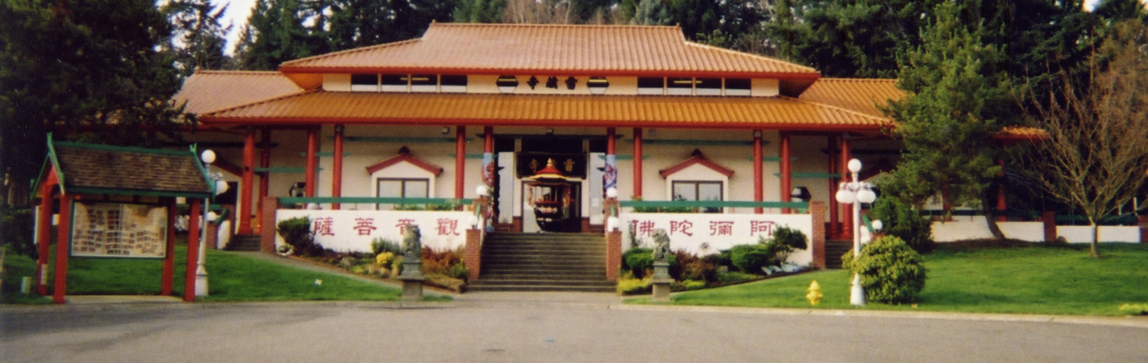 Ling Shen Ching Tze Temple in Redmond, Washington